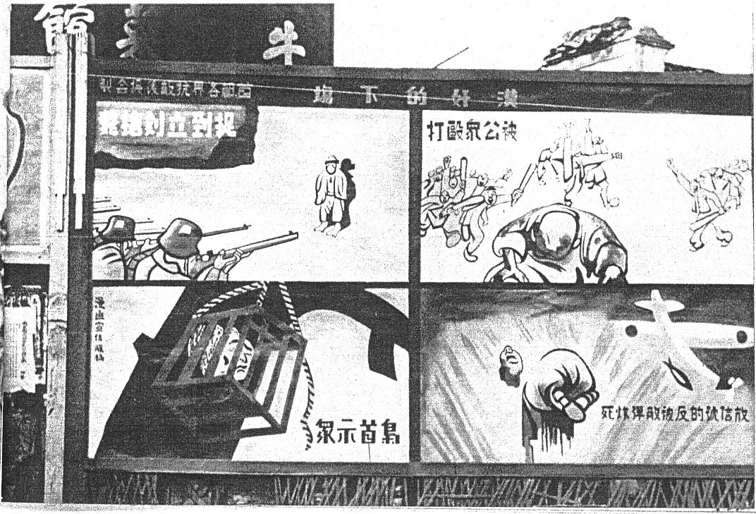 The poster which was published by the "war supporters' association of all quarters of capital city" can be seen everywhere in Nanking. Anyone who is friendly with the Japanese armed forces must be punished as "Hanjian", or "a betrayer of the county". Top right shows the scene of blows by a crowd. Bottom right means that who sends signal to an airplane is made to rather die by bombimg. Top left says that betrayers are to be arrested and shot to death. Bottom left is the image of severed head as a warning to others.